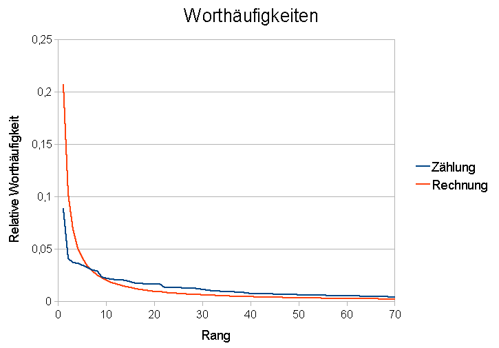 Distribution of words and compared to simple Zipf distribution ~1/n. Number of words: 70. Analysed text: See: Zipfsches Gesetz